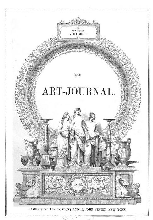 Title page of The Art Journal, January 1862 issue.